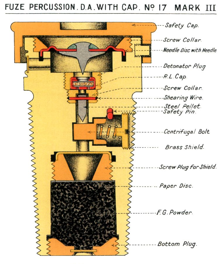 Diagram of British No. 17 D.A. Percussion Fuze Mk III, with cap, 1914. Fits G.S. 1 inch fuze socket. Body is made of a metal resembling gunmetal. Magazine contains about 70 grans F.G. powder. Armed by shell rotation. Used with Lyddite shells for the following guns, Land service : BL 2.75 inch mountain gun BL 60 pounder gun BLC 6 inch siege gun QF 4.7 inch gun (travelling carriage) QF 4.5 inch howitzer BL 5 inch howitzer BL 6 inch 30 cwt howitzer